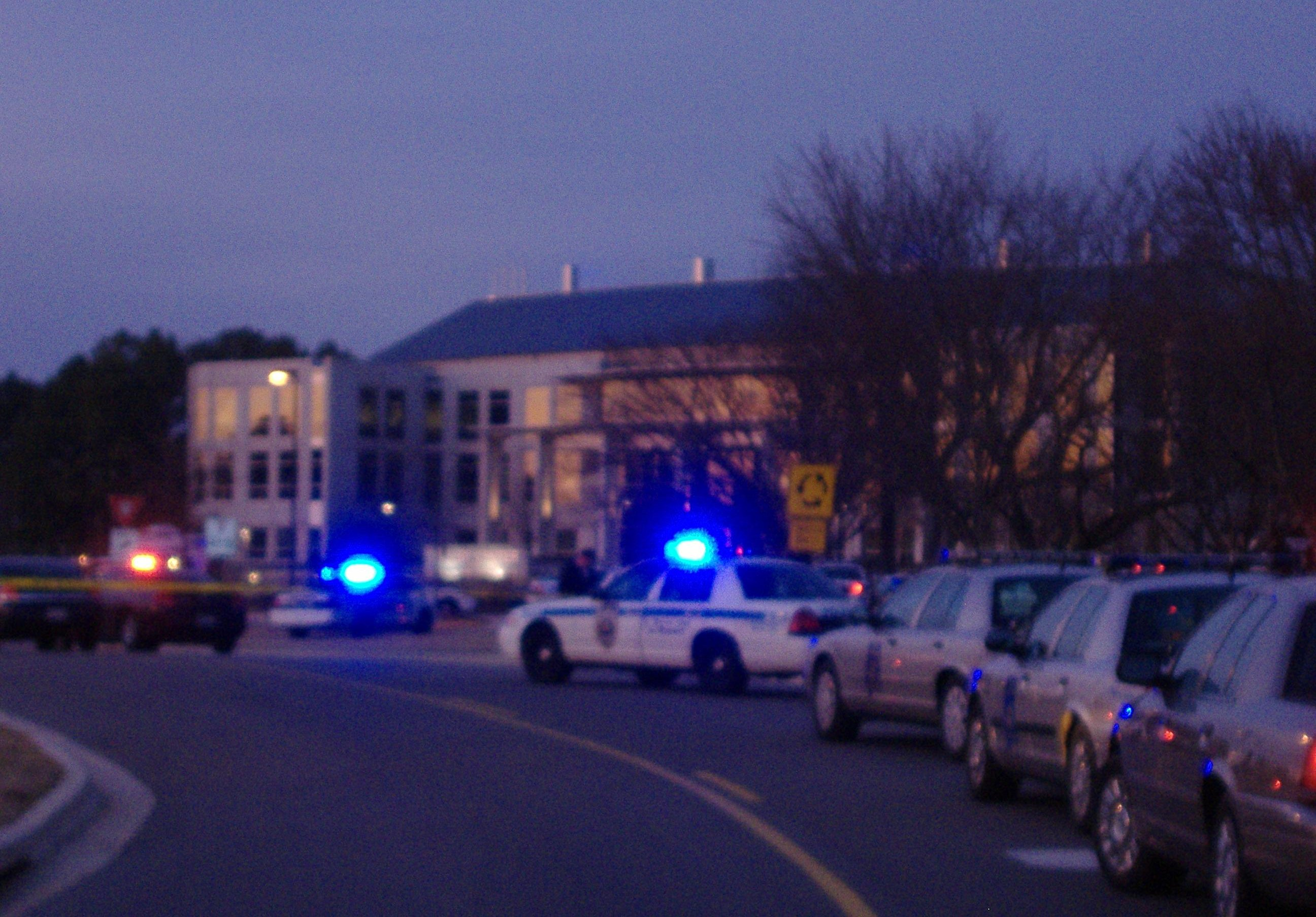 The Shelby Center at UAHuntsville shortly after the shooting incident. Photo taken by Khalid Tantawi, February 12 2010.